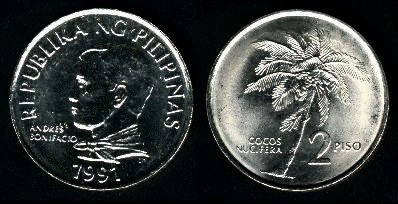 2 piso